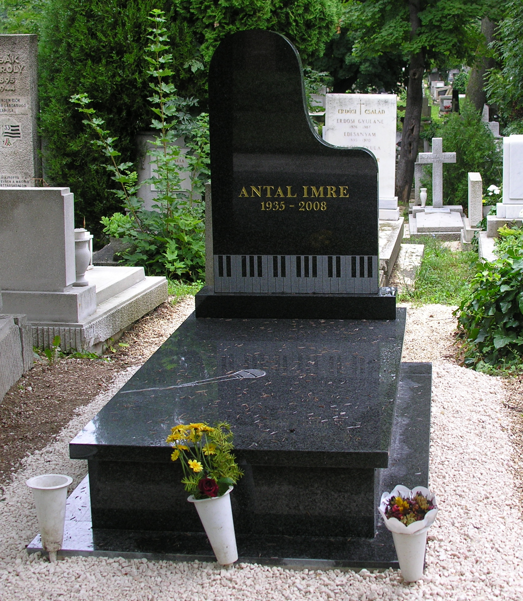 Grave of Imre Antal